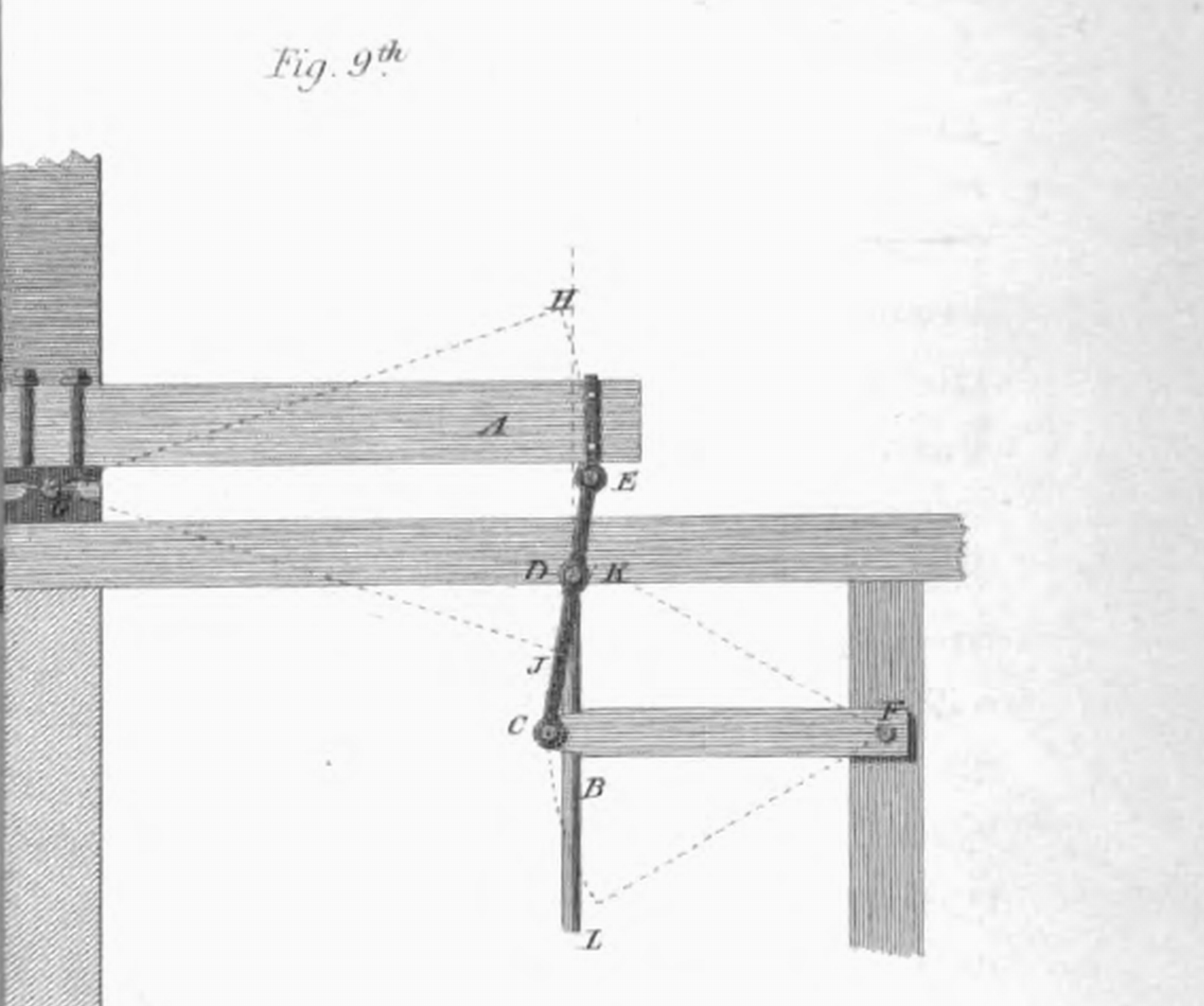 James Watt's mechanisms for guiding the upper end of the piston rod of a double-acting engine (British Patent 1432, April 28, 1784). Top Figure 9, top left.